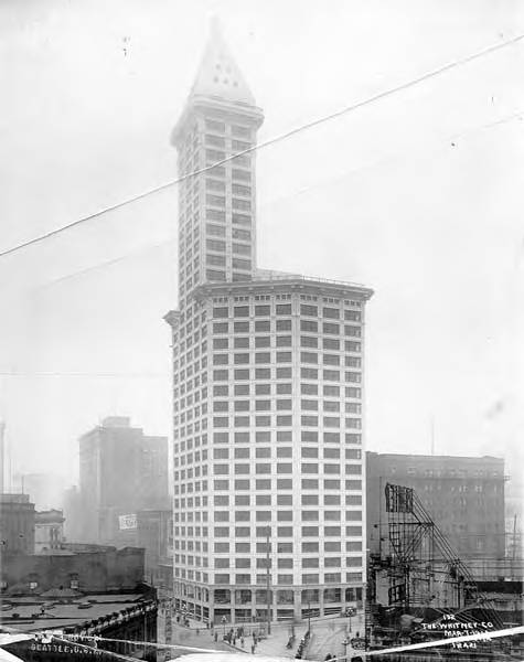 PH Coll 1023.158